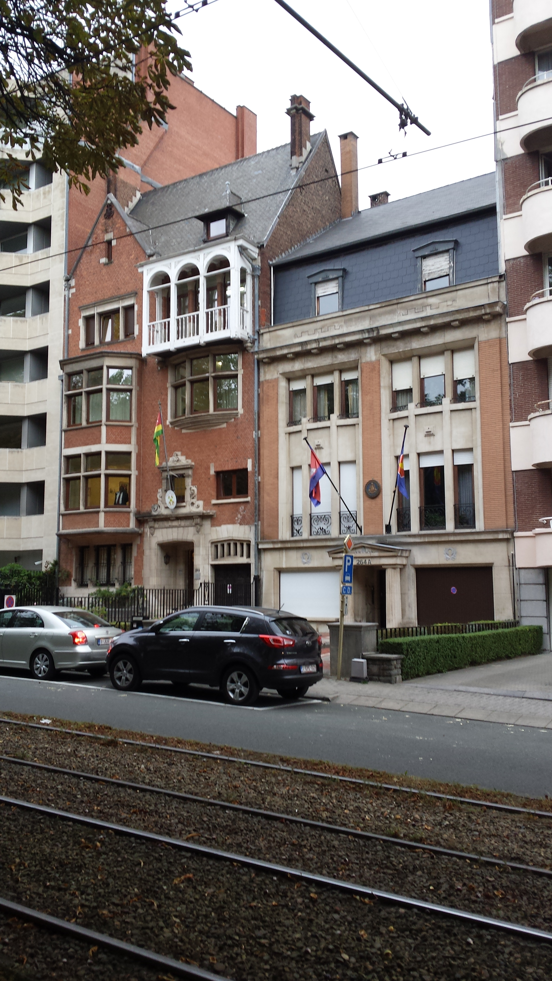 Embassies of Togo and Cambodia in Brussels